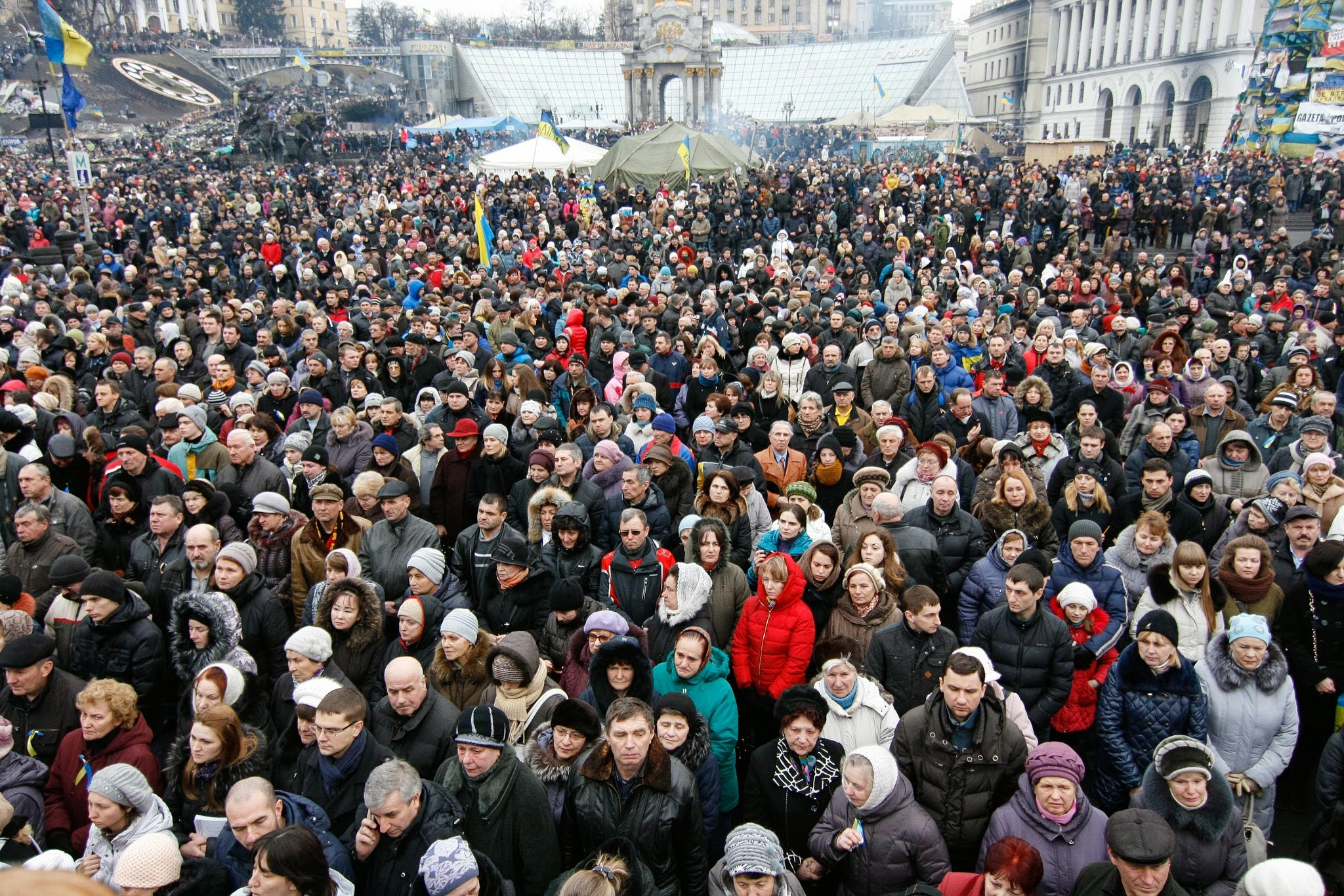 Euromaidan in Kyiv on 23 February 2014